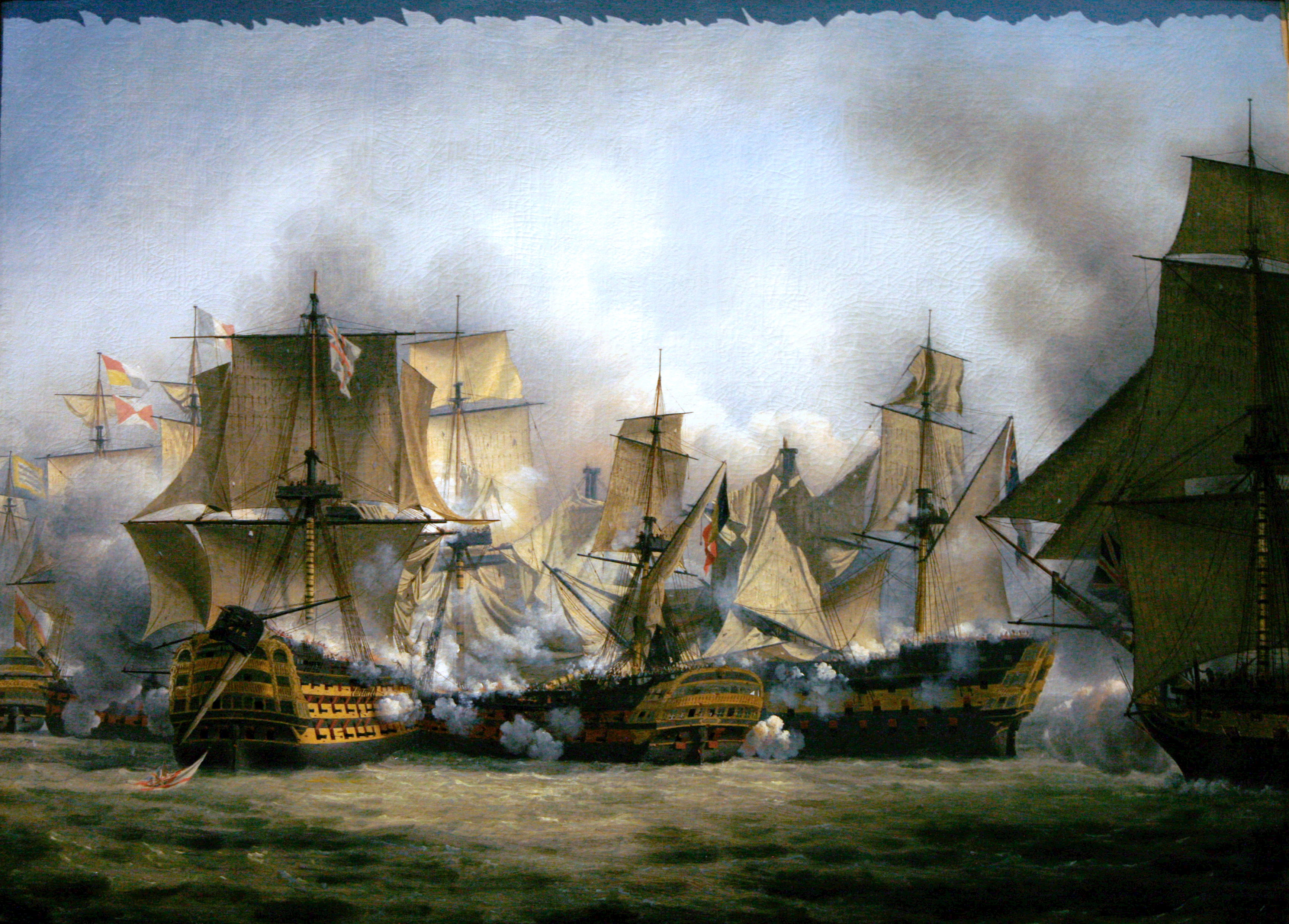 The Redoutable at the battle of Trafalgar, between the Victory (on the left) and the Temeraire on the right